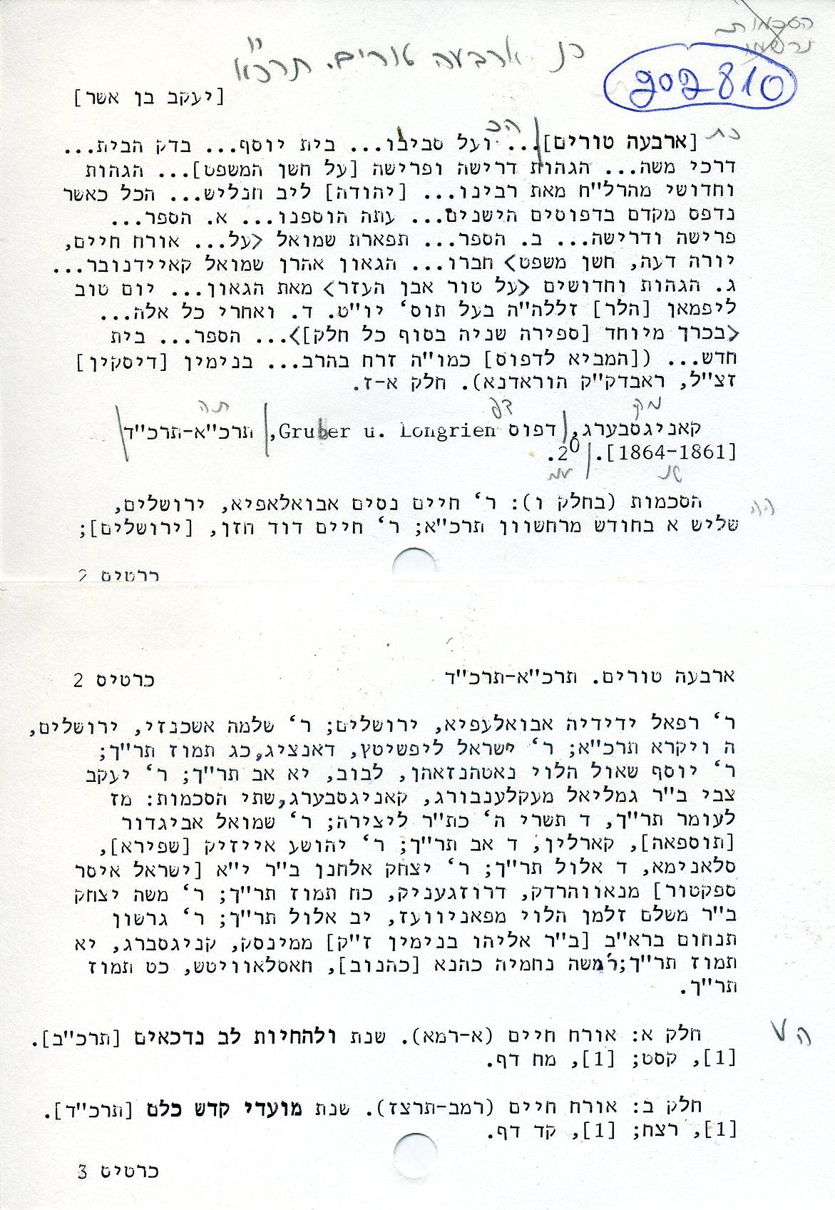 An entry of the Hebrew bibliography catalog